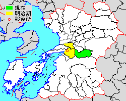 The location of Shimomashiki_District in Kumamoto Prefectuur, Japan